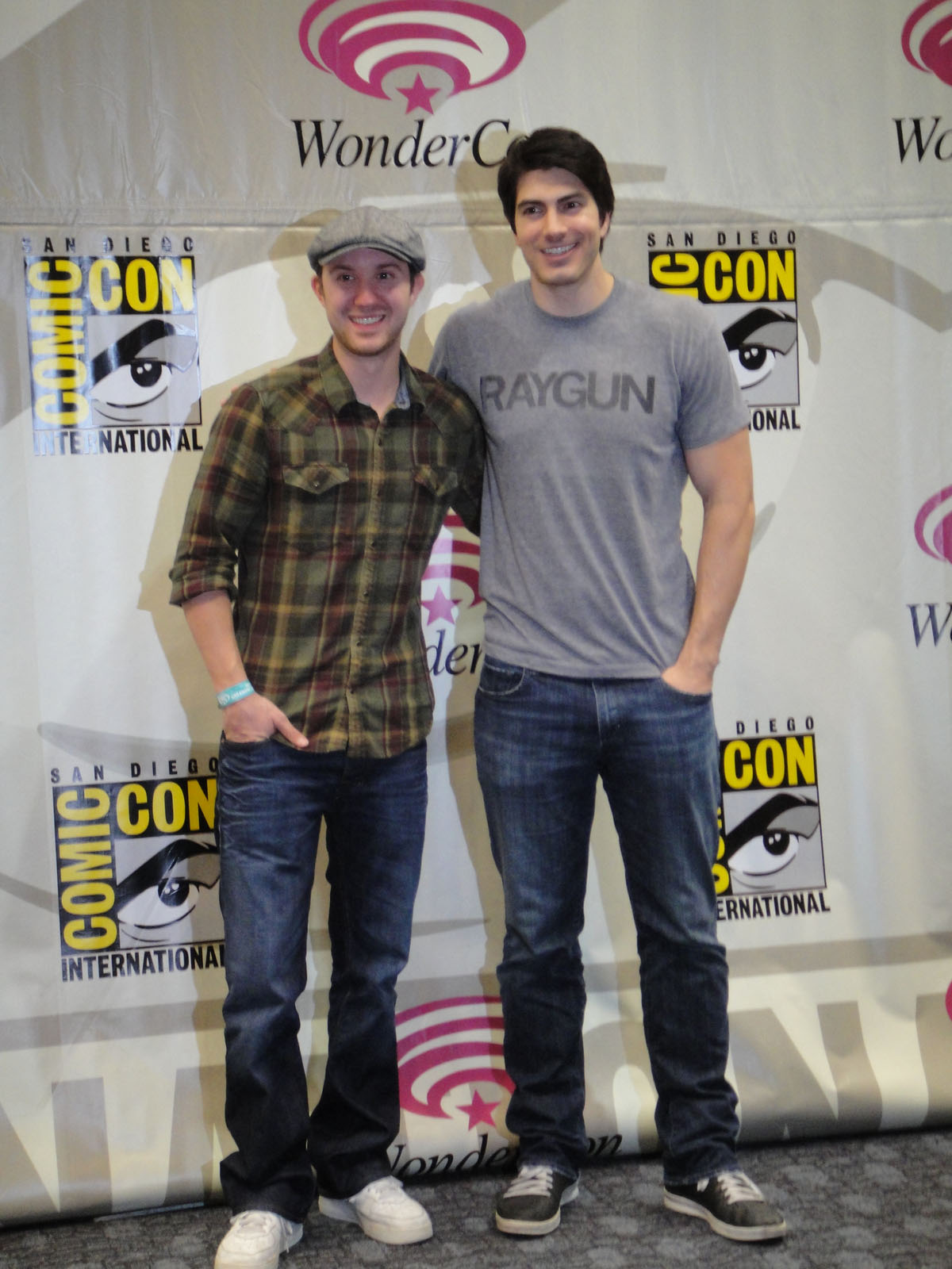 Sam Huntington and Brandon Routh from Dylan Dog: Dead of Night at WonderCon 2011 Masquerade